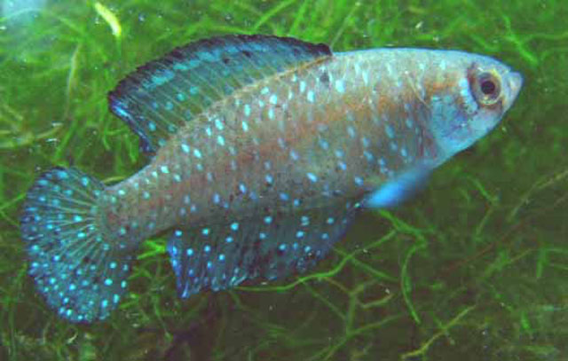 An Argentine Pearlfish Austrolebias nigripinnis